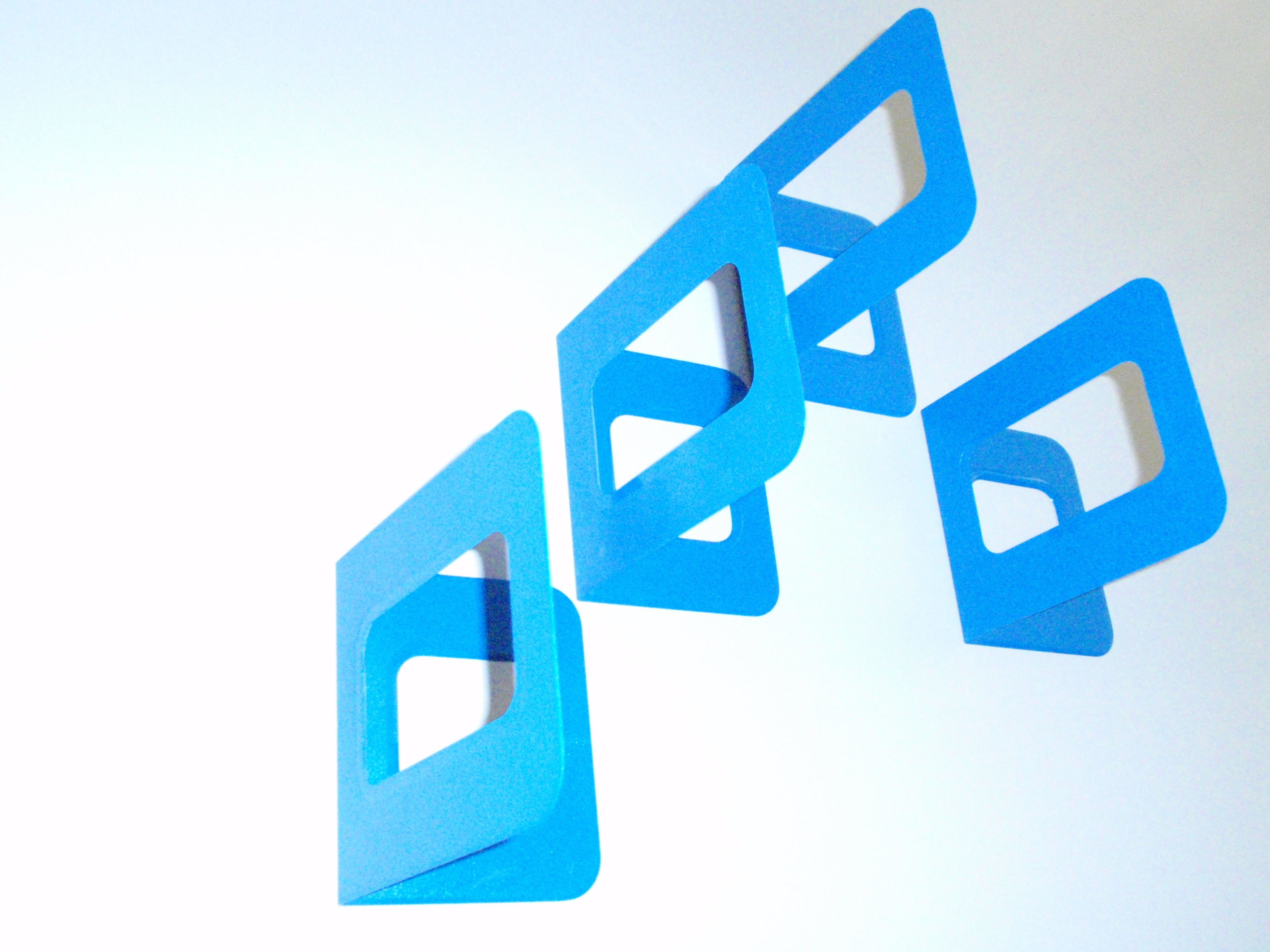 Bookends